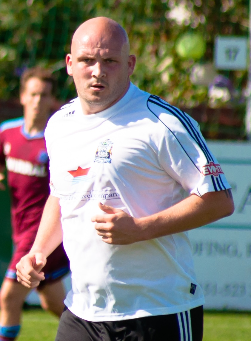 Lee McEvilly. Image cropped from original at flickr.